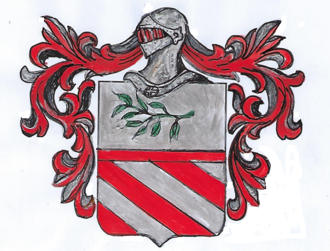 Arms of Ciminelli of Bassano near L'Aquila, Abruzzi